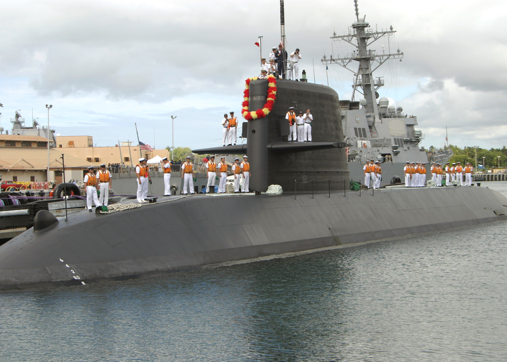 Pearl Harbor, Hawaii (June 22, 2004) - Sailors aboard the Japanese Submarine Narushio (SS 595) prepare to disembark the submarine as it arrives in Pearl Harbor, Hawaii for a port call. Japan is one of several countries participating in this year's 2004 Rim of the Pacific (RIMPAC) exercise. (RELEASED)